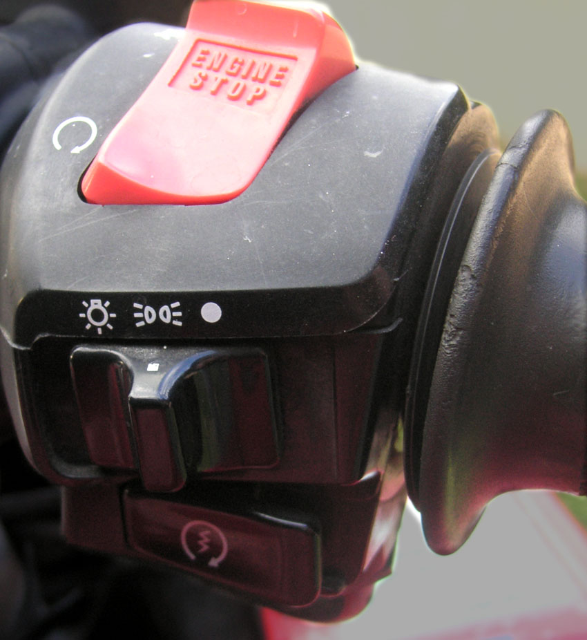 Order right handle